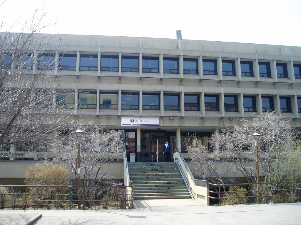 Centre for Addiction and Mental Health – Russell Street site (at 33 Russell Street, Toronto, Ontario, Canada)Taken by SimonP in April 2005